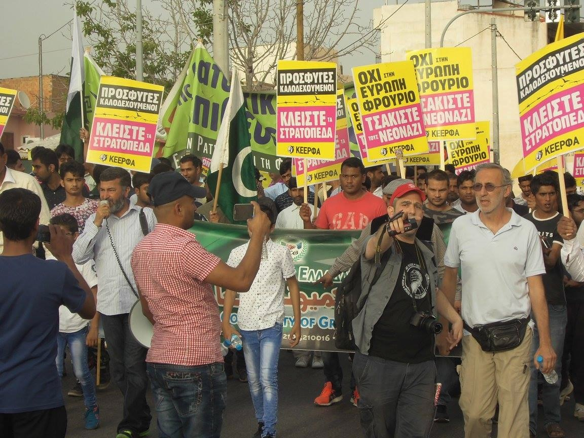 Petros Constantinou, national coordinator of KEERFA (United Movement Against Racism and the Fascist Threat) staging a protest in Greece with migrants from Pakistan and Bangladesh. The banners read 'Beat the Neo-Nazis' and 'Close the Camps'.